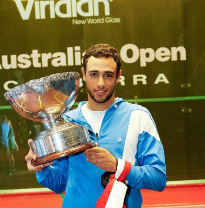 Ramy Ashour during Australian Open 2011